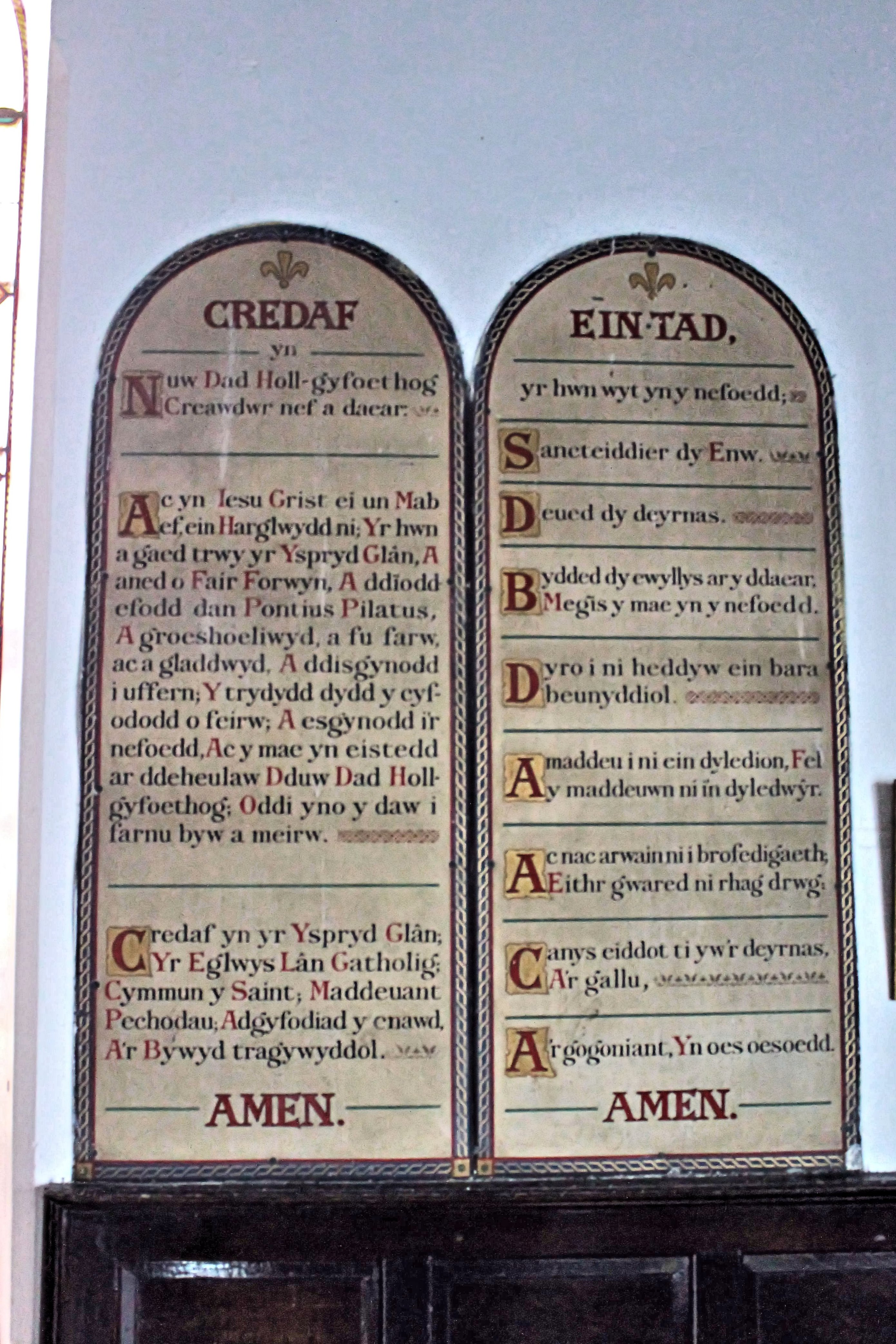 The village of Pennal, Gwynedd, North Wales. St Tannwg and St Eithrias Church. Royal Chapel of the Prince Owain Glyndŵr.